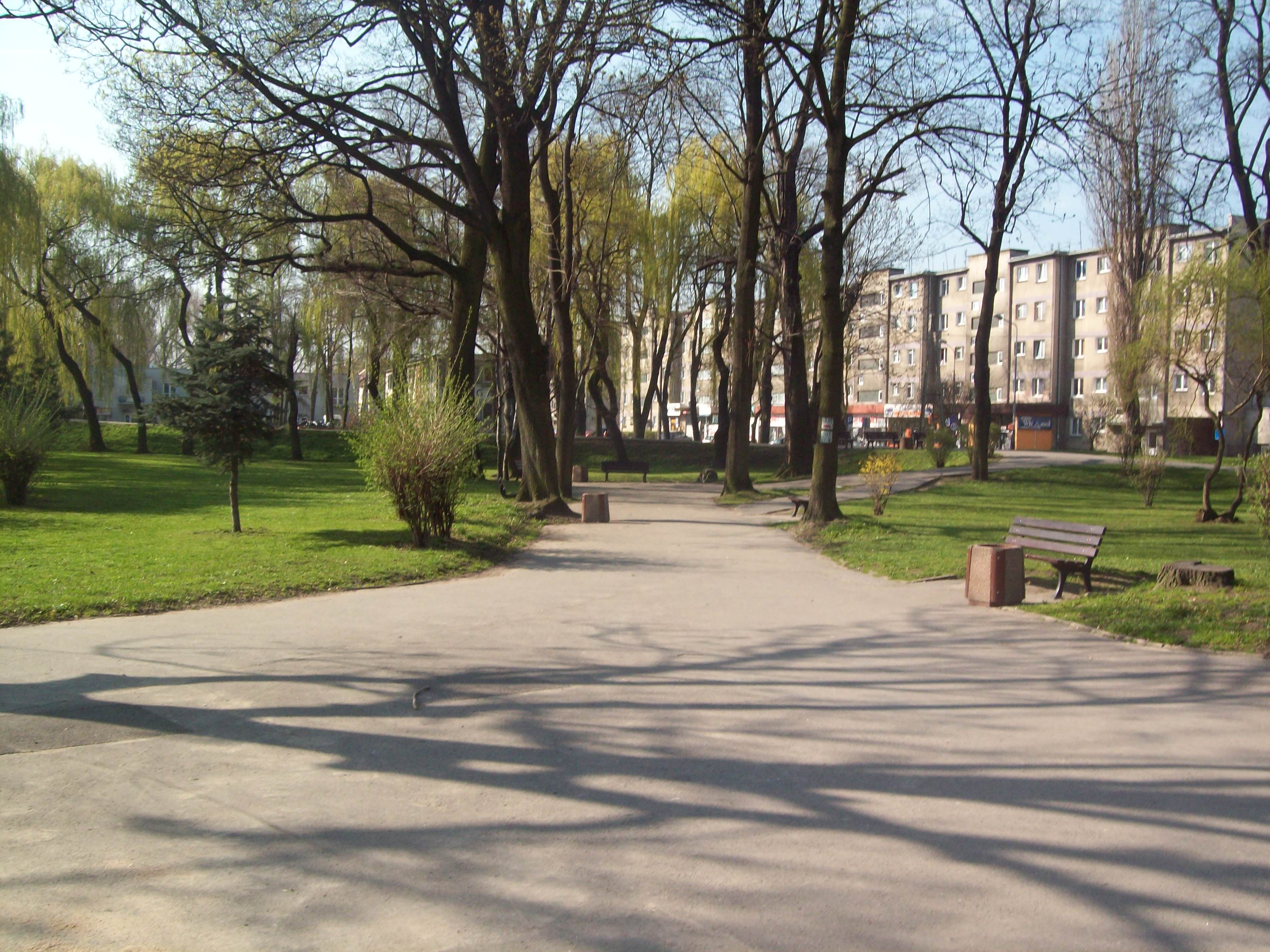 Friendship Park in Kłodzko, south part